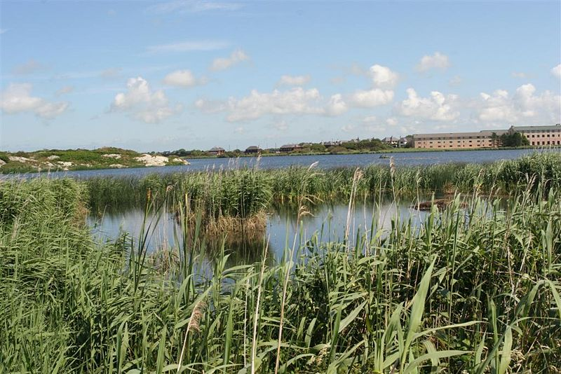 Llyn Penrhyn, Anglesey